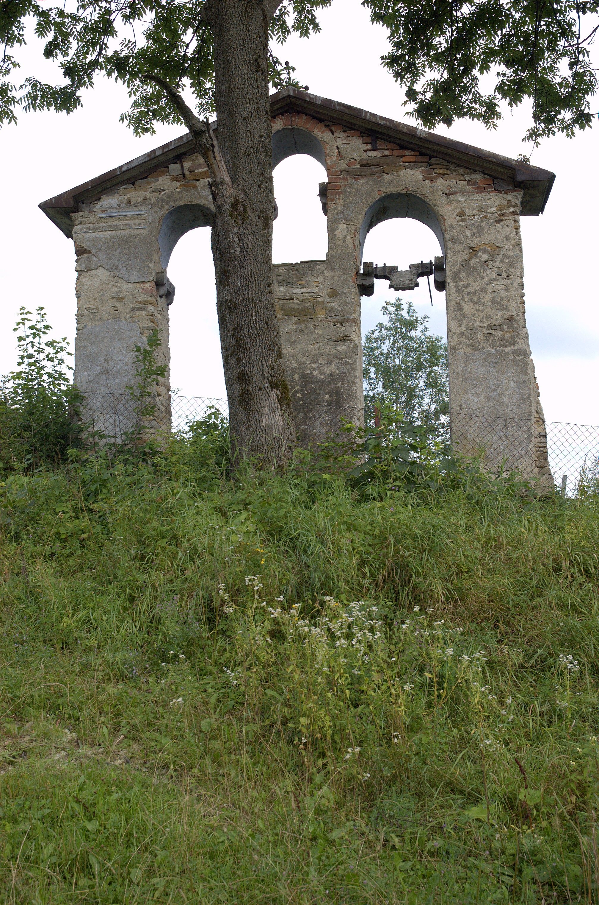 Greek Catholic church in Kopysno